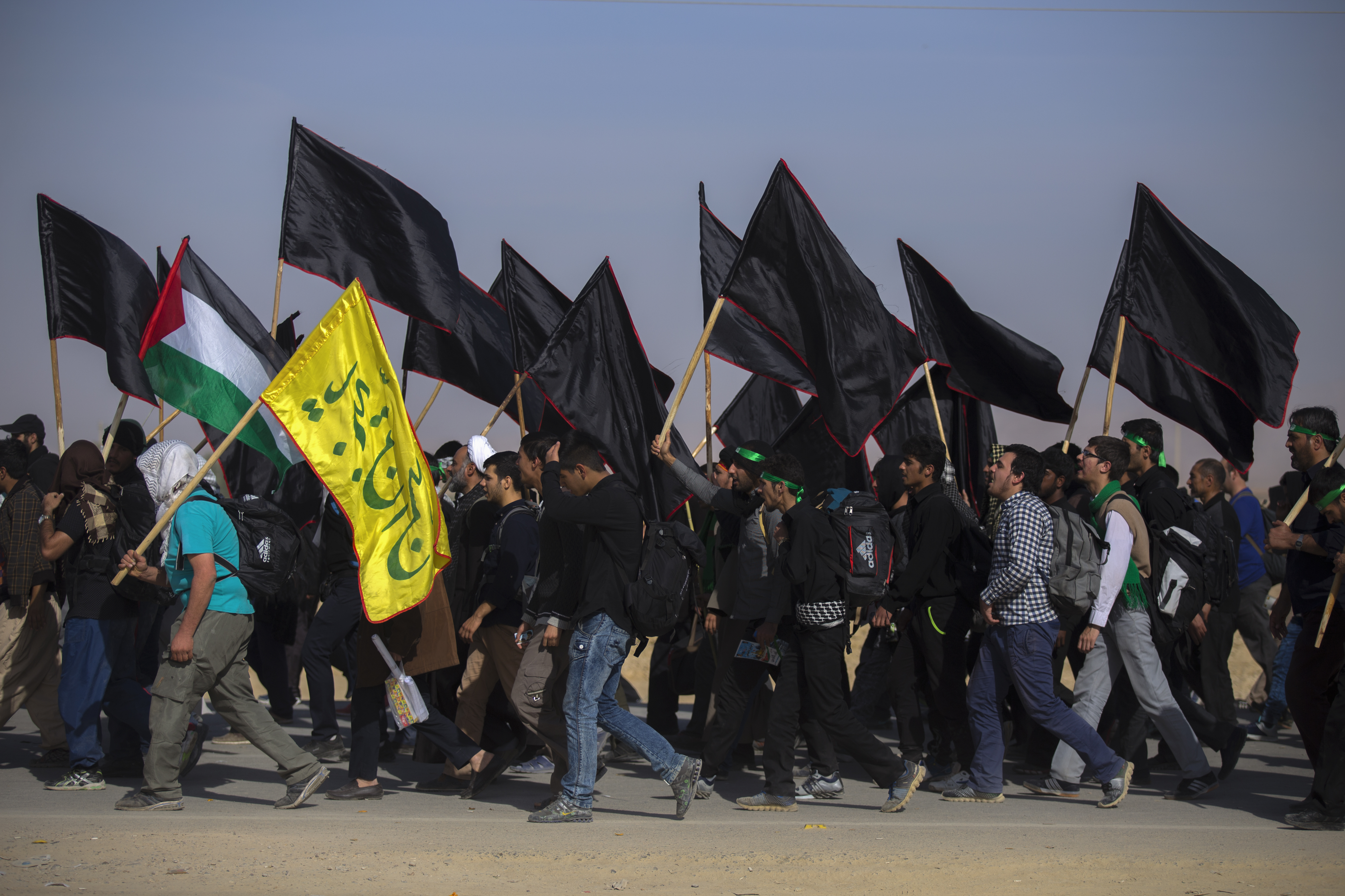 During the pilgrimage "copious supplies of food, small clinics and even dentists are available for pilgrims and they all work for free. "The care of pilgrims is regarded as a religious duty." The pilgrims carry flags of different color but the black flag of mourning for Imam Hussein is by far the most common. They also decorate "permanent brick buildings and temporary tents which are used for praying, eating and sleeping along the three main routes leading to Kerbala." Along the roads to Karbala, many Mawakibs are devised with the aim of providing "accommodation, food and beverage and medical services", and practically anything else the pilgrims need for free. Seven thousand of such mawakeb were set up in city of Karbala in 2014. Besides Iraqi Mawakibs, which are unofficially organized, there are some Iranian ones which are less "specifically targeted" but pilgrims are from various regions.